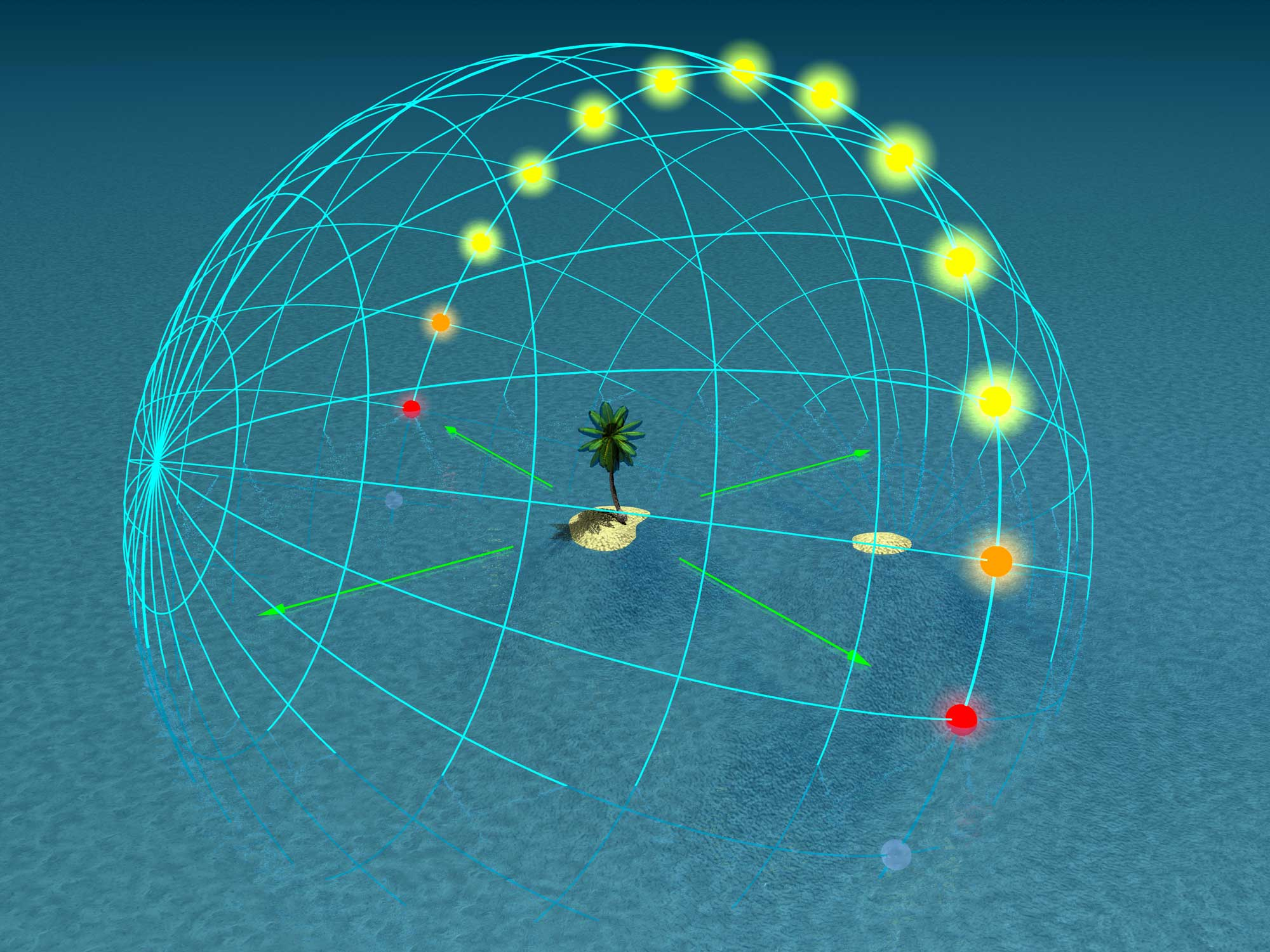 The day arc of the Sun, every hour, during the equinoxes as seen on the celestial dome, from 20° latitude. Also showing 'twilight suns' down to -18° altitude.